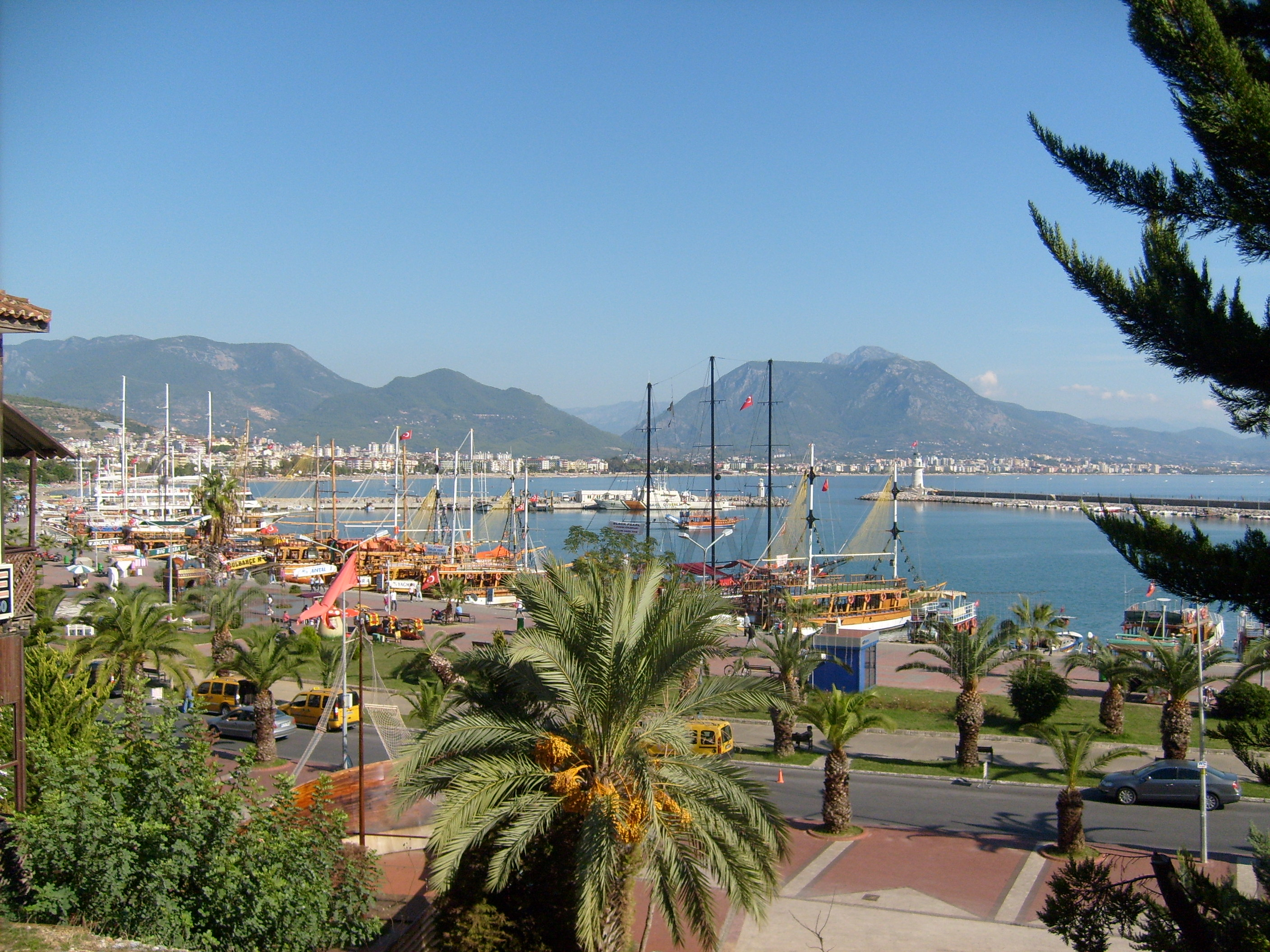 Port of Alanya